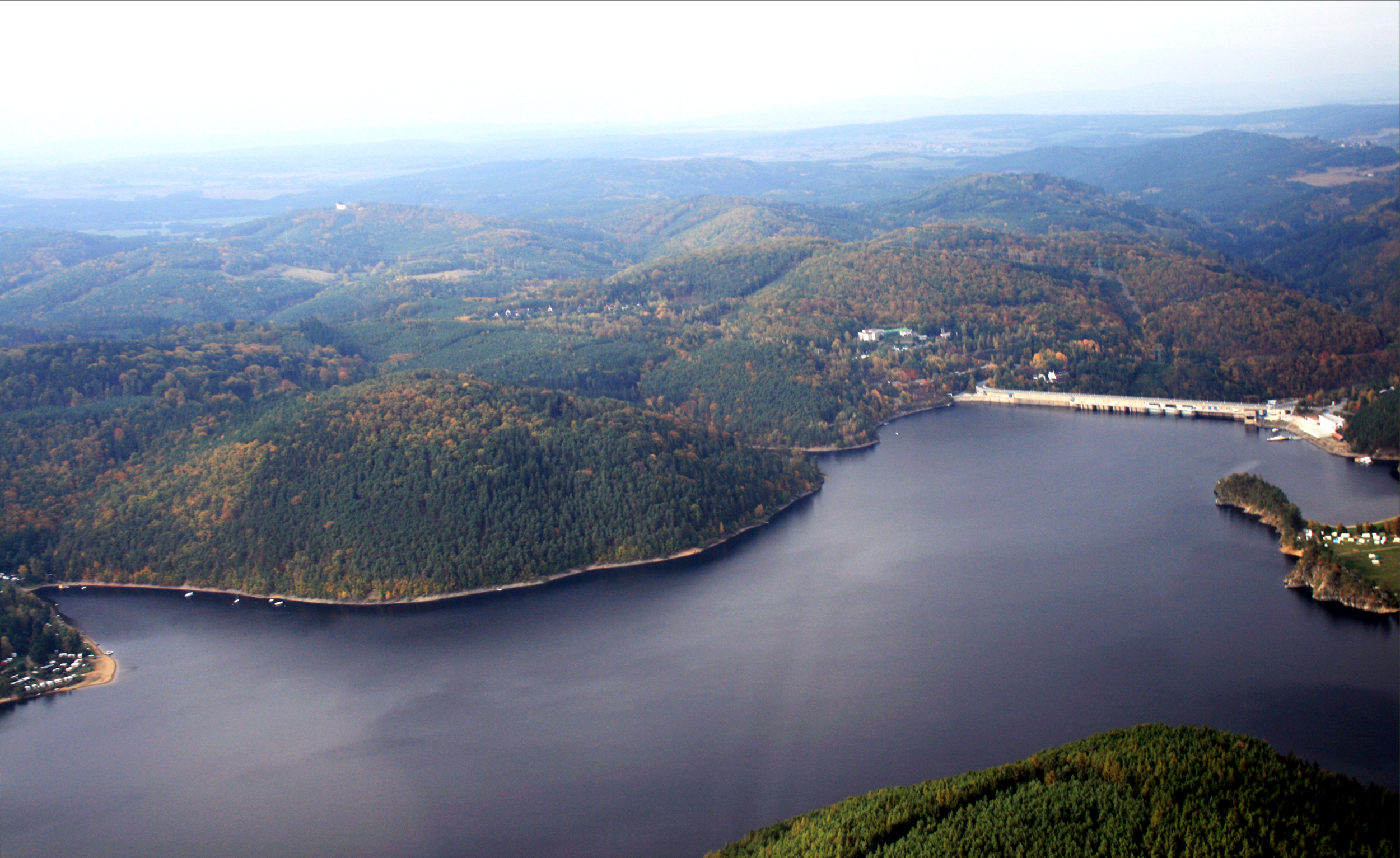 Air photo of Orlík dam on Vltava river, the Czech Republic